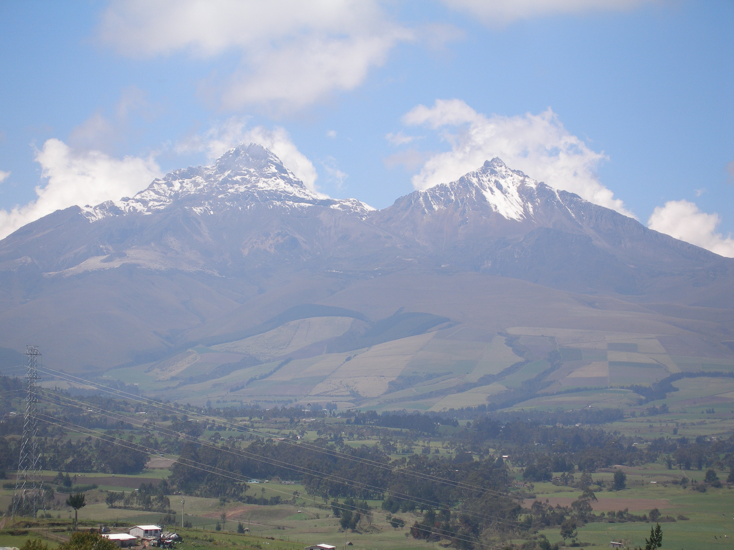 A picture of the Illinizas mountains in Ecuador.